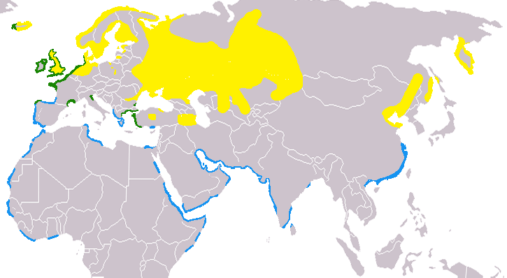 Haematopus ostralegus; yellow:summer; blue:winter; green:year-round